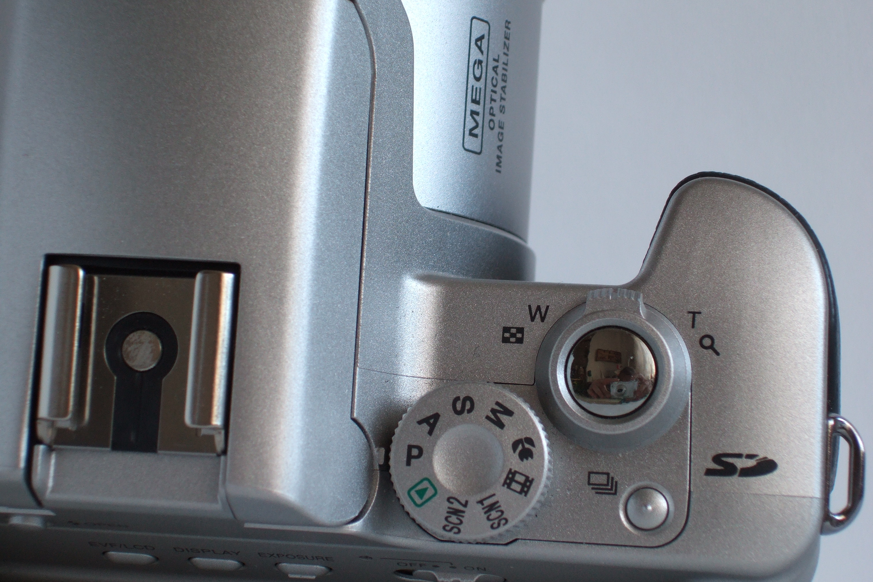 Mode Dial and Hot Shoe Of The Panasonic Lumix DMC-FZ20